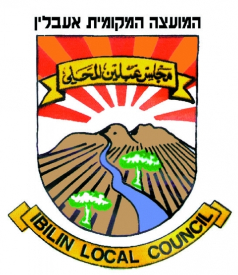 The coat of arms of the town of Ibillin. The words "Ibillin Local Council" are written in Arabic, English and Hebrew.